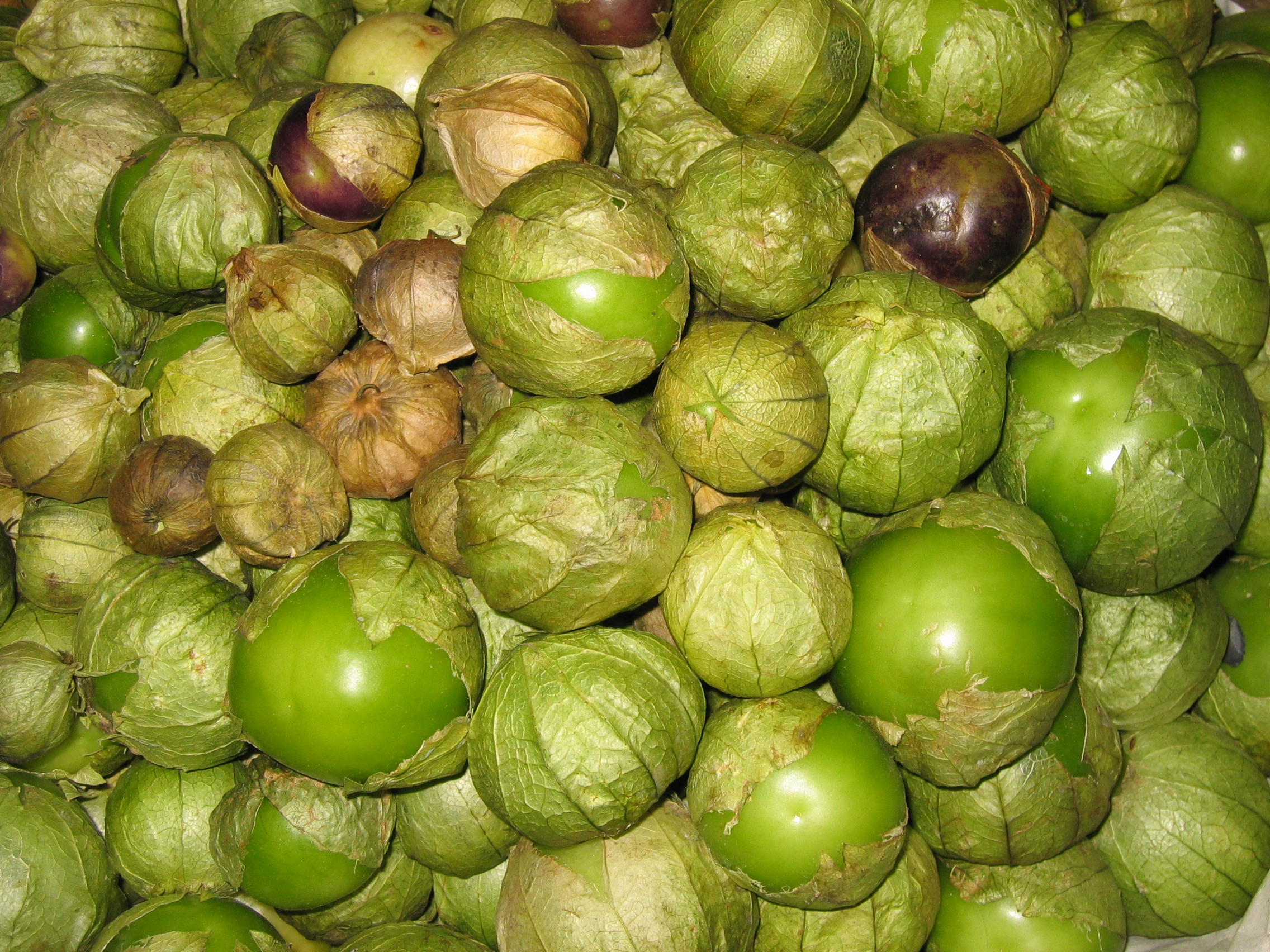 Oaxaca (Physalis ixocarpa)